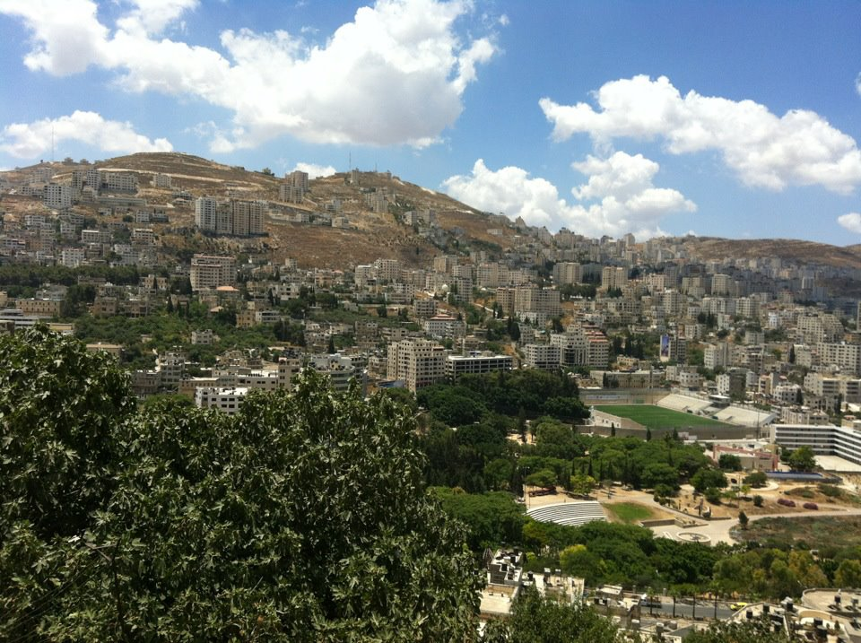 A general picture of the city Nablus in the west bank. Taken by Basel Quzeih